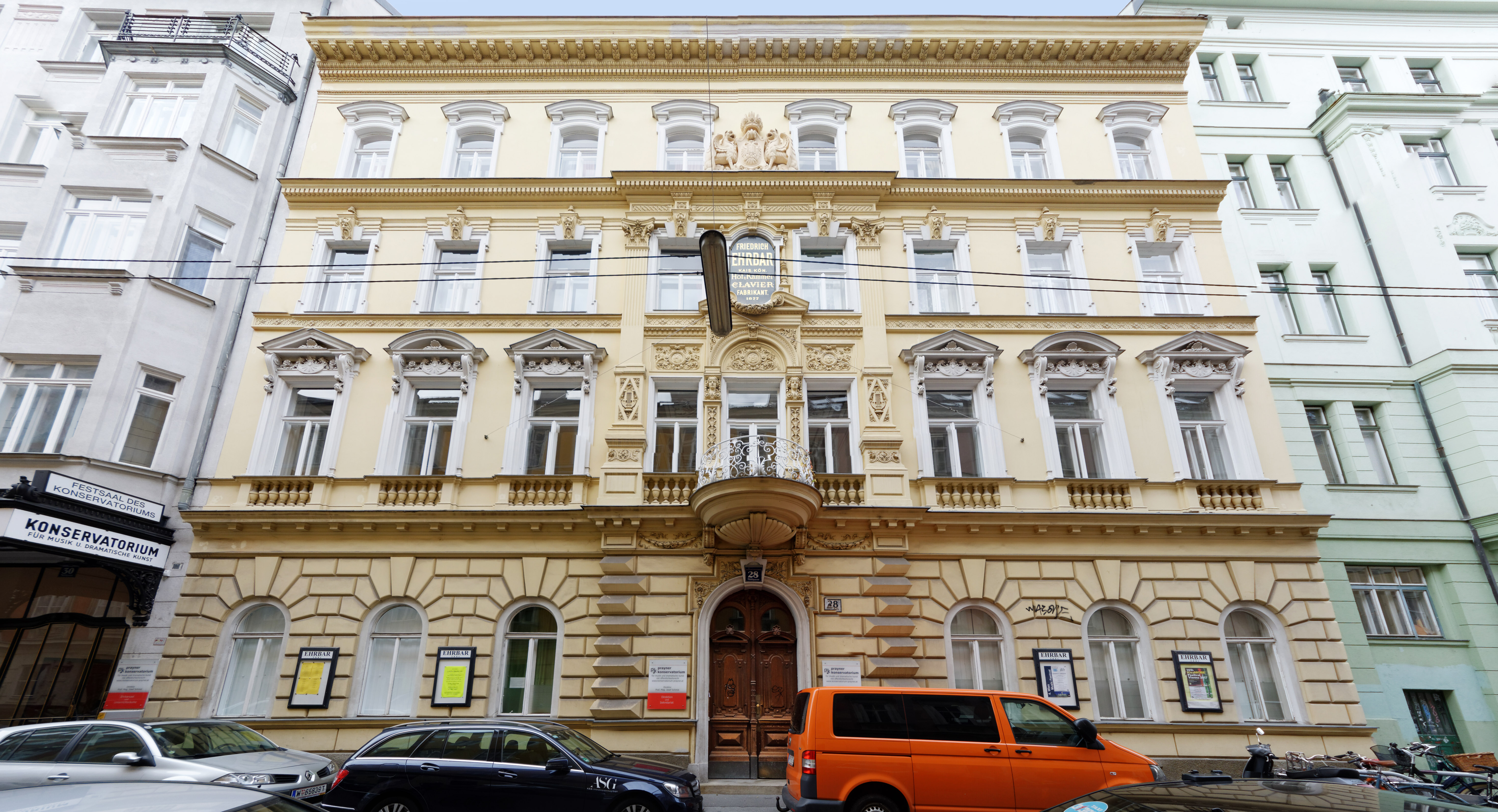 Former palais Ehrbar - now a residential building - in Wieden, Vienna, Austria